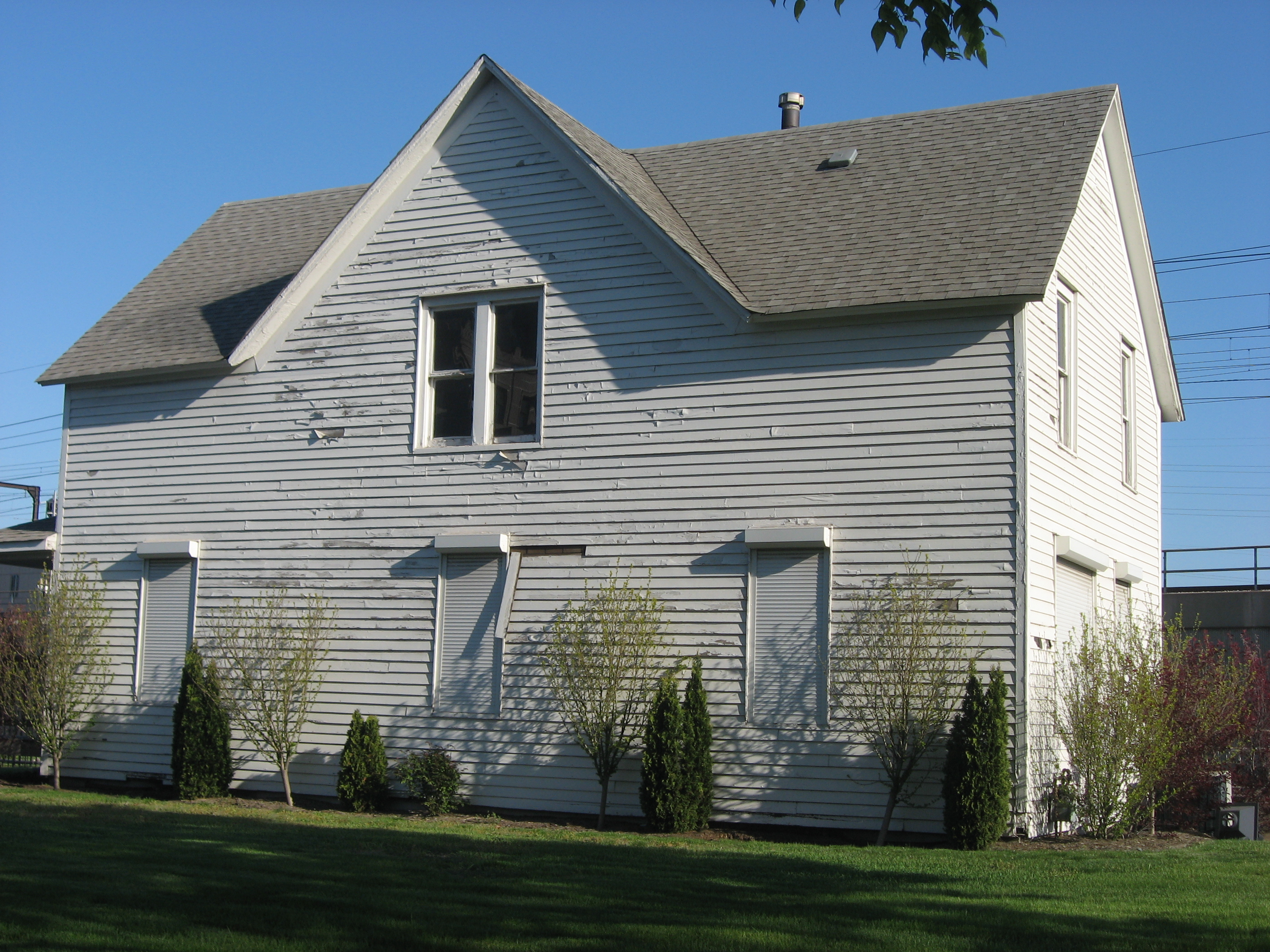 Front and eastern side of the Gary Land Company Building, located at the intersection of Fourth Avenue (U.S. Routes 12/20) and Massachusetts Street in Gary, Indiana, United States. Built in 1906 as the first building in Gary, it has functioned as a city hall, post office, school, and business building. It is listed on the National Register of Historic Places.